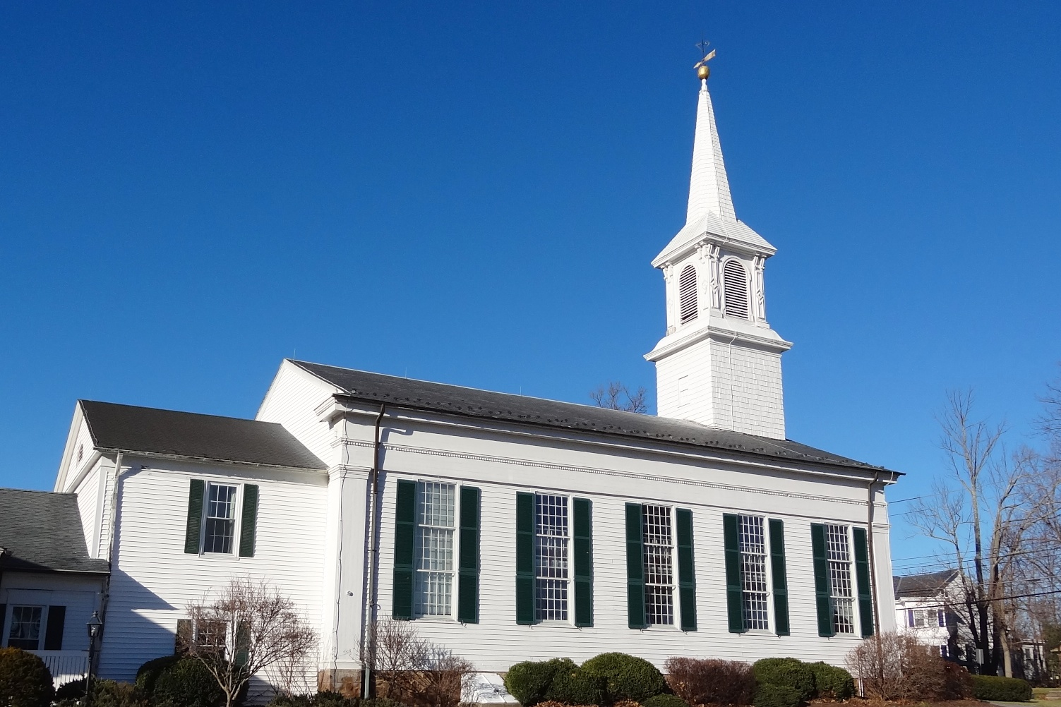 Pluckemin Presbyterian Church Built 1851–2.